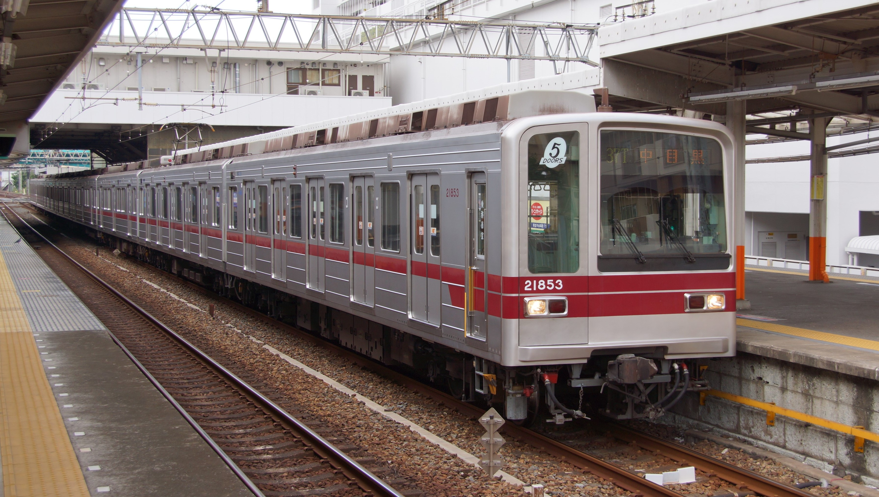 Tobu 20050 series EMU set 21853 at Nishiarai Station on the Tobu Skytree Line on a through service to Naka-Meguro